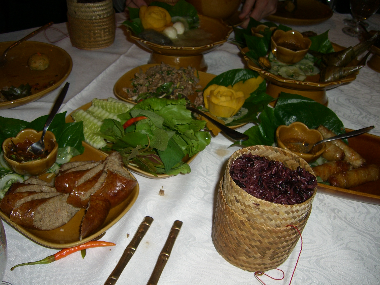 Kualao Restaurant in Vientiane, Laos. Front right: red sticky rice, front left: Laotian sausage.